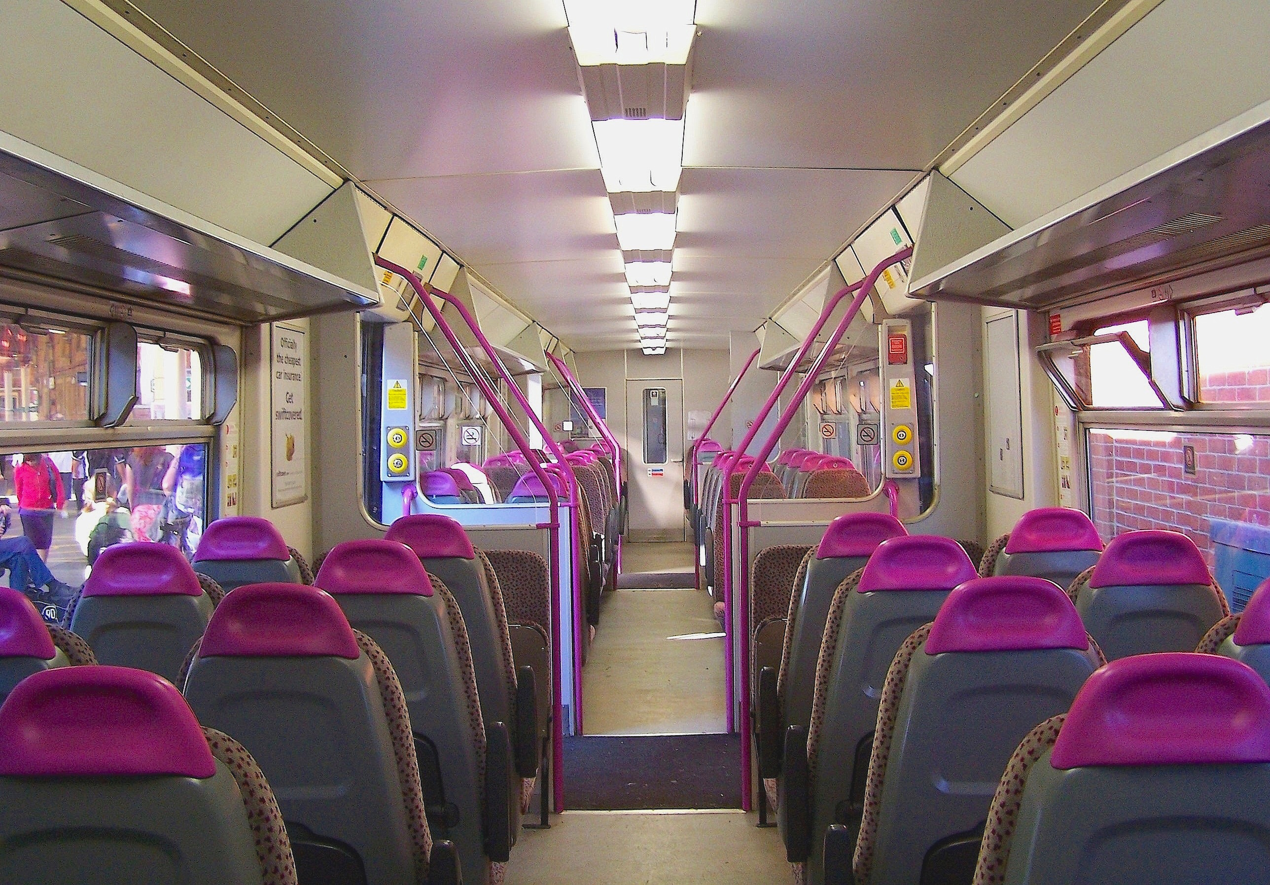 The interior of a Wessex Trains refurbished Class 150/2